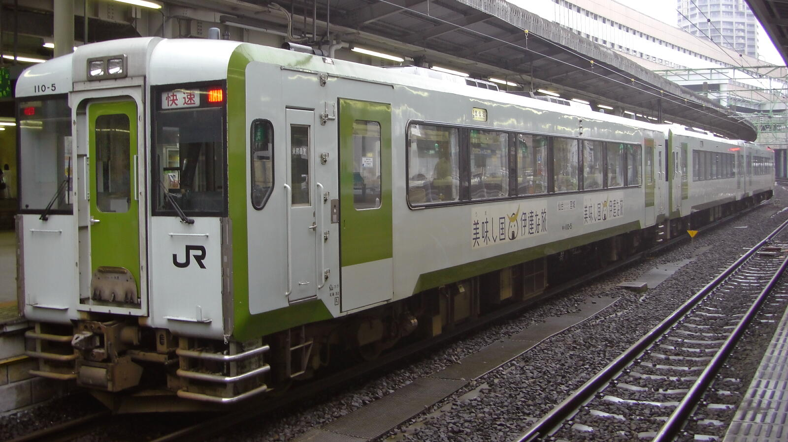 JREast Kiha110-0 Diesel Car